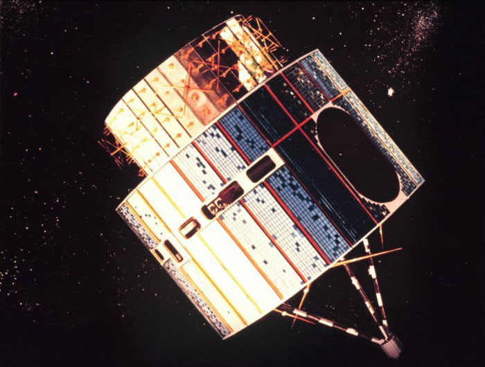 Artist rendering of NOAA's GOES 3 earth observing satellite